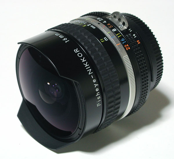 Ai Fisheye-Nikkor 16mmF2.8S